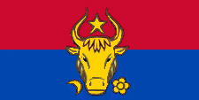 Communist Party of Moldova's flag drawed since their website